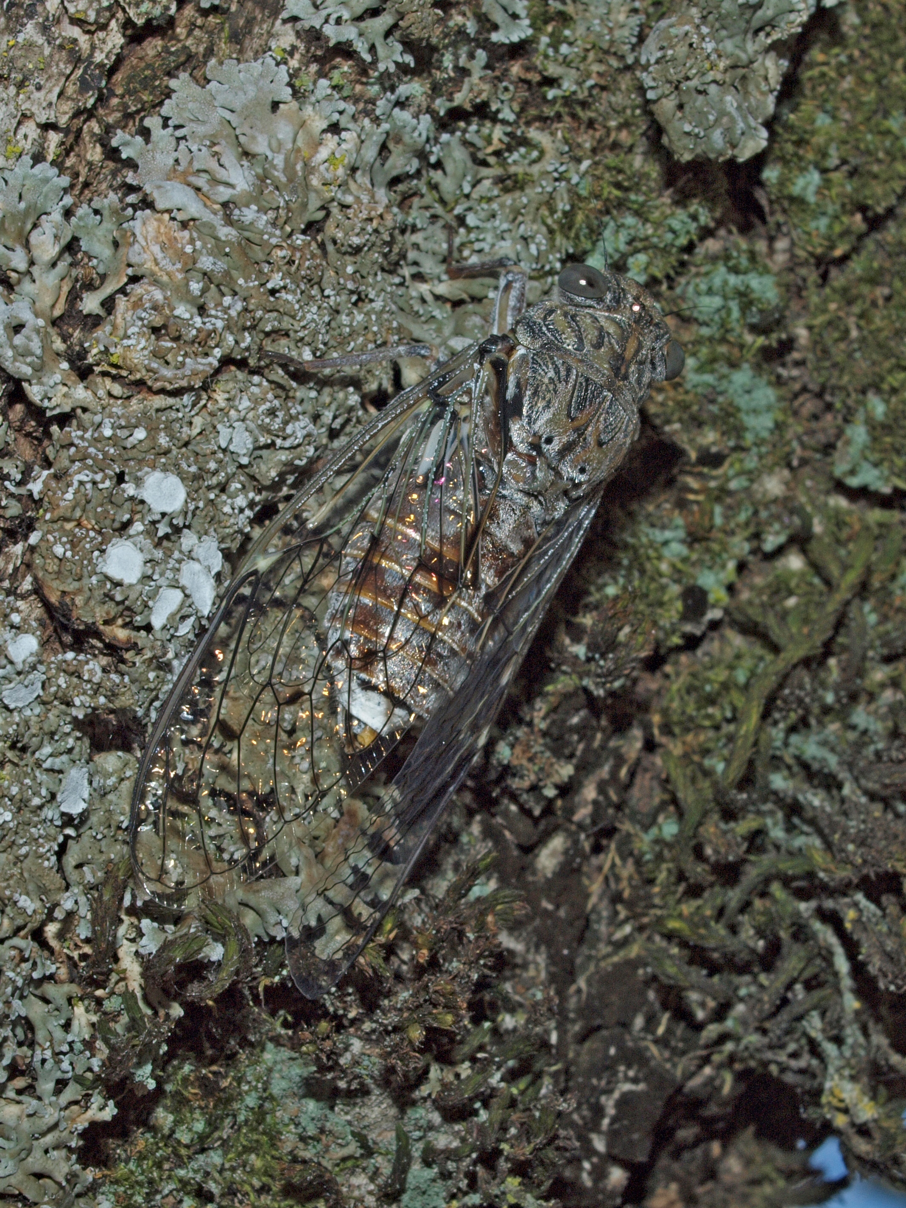 Cicada barbara cf. subsp. lusitanica on an olive tree (Olea europaea). Losar de la Vera (Cáceres, España).